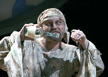 Caliban (Todd Scofield) has a conversation with his imaginary friends, Trinculo and Stephano, in Folger Theatre's production of Shakespeare's The Tempest in 2007.